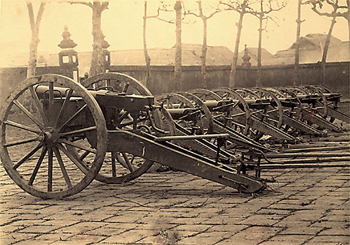 Chinese cannon captured at Bac Ninh, March 1884